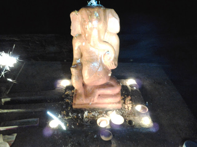 This photo is clicked by me on my mobile